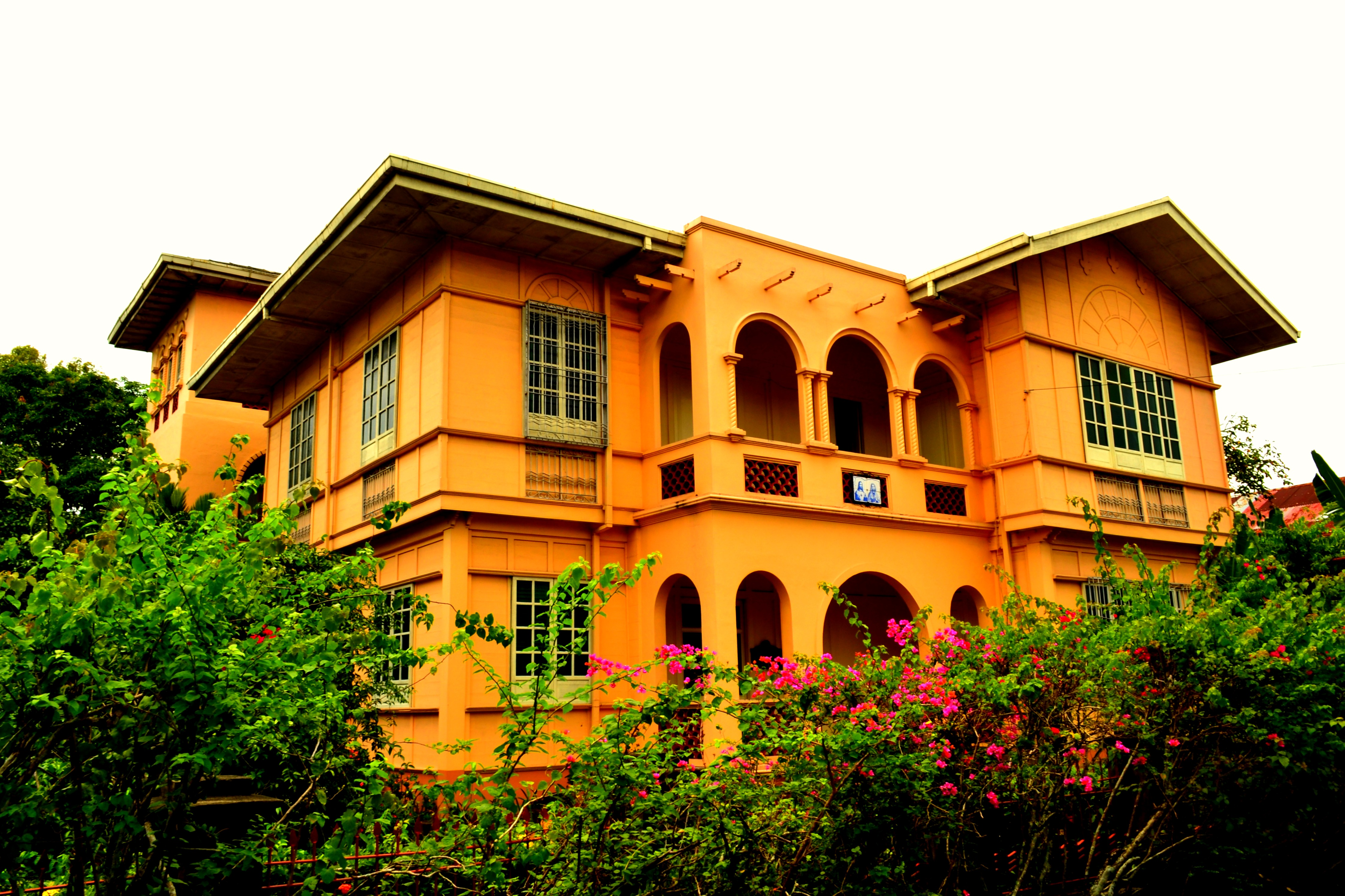 Declared as heritage house last April 6, 1993 pursuant to the board resolution of the National Historical Institute of the Republic of the Philippines.